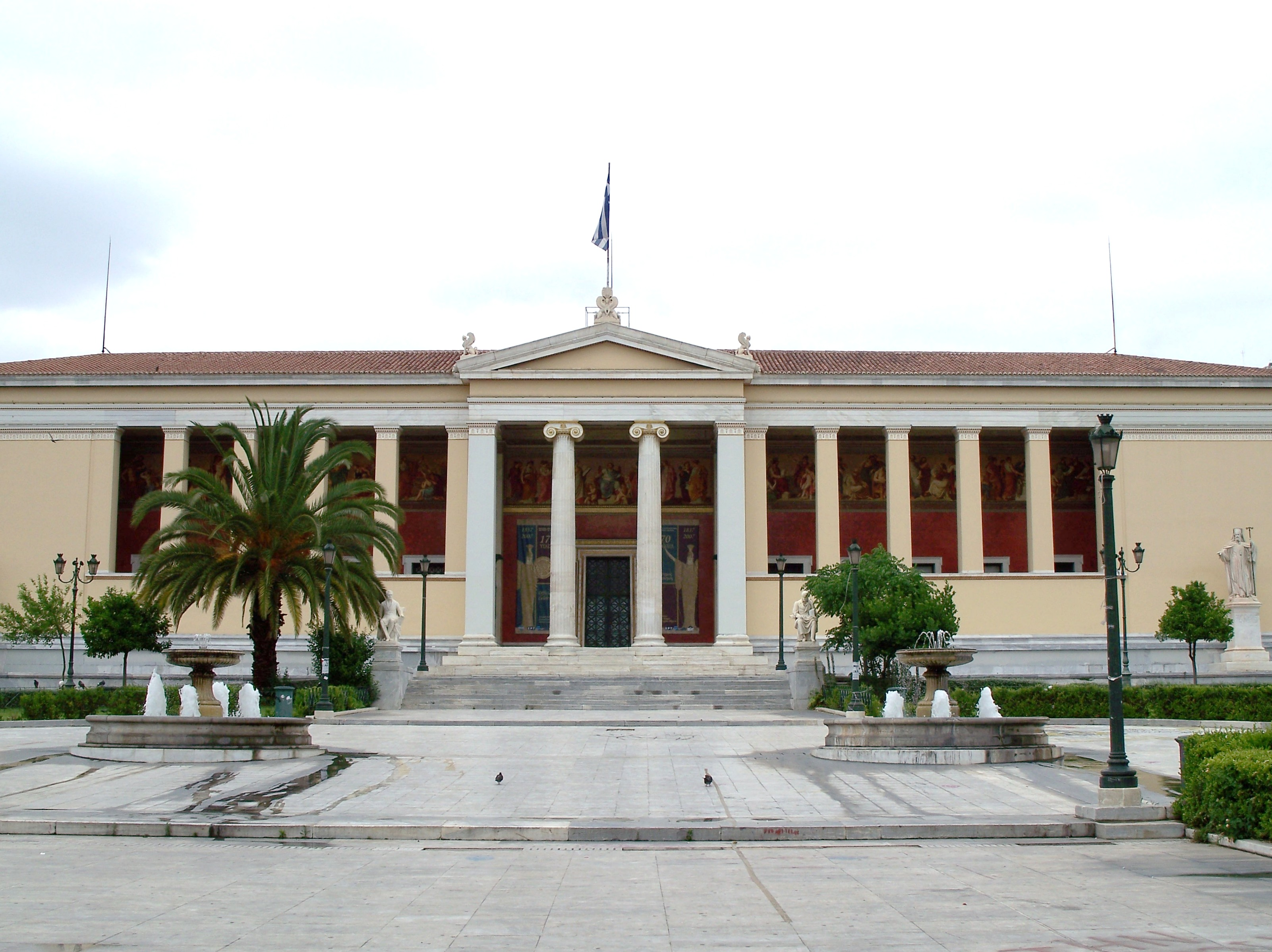 The main building of the National and Kapodistrian University of Athens (Πρυτανεία Πανεπιστημίου ΑΘηνών) Located in downtown Athens